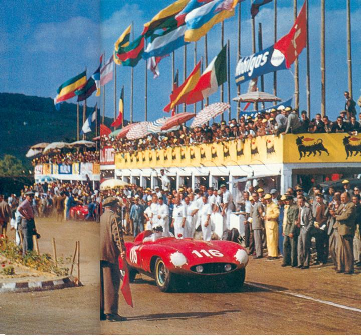 Eugenio Castellotti in the 1955 Ferrari 857 S (was before a 750 Monza) s/n 0570M at 1955 Targa Florio, co-driver was Robert Manzon, and they ended in 3rd place.[1]